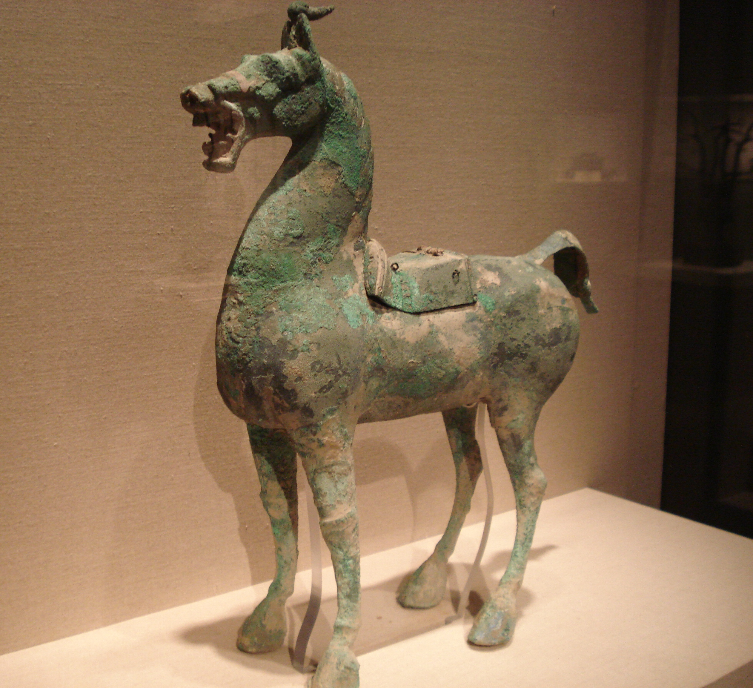 A Chinese bronze horse statue with a lead saddle, from the Han Dynasty (202 BC – 220 AD).